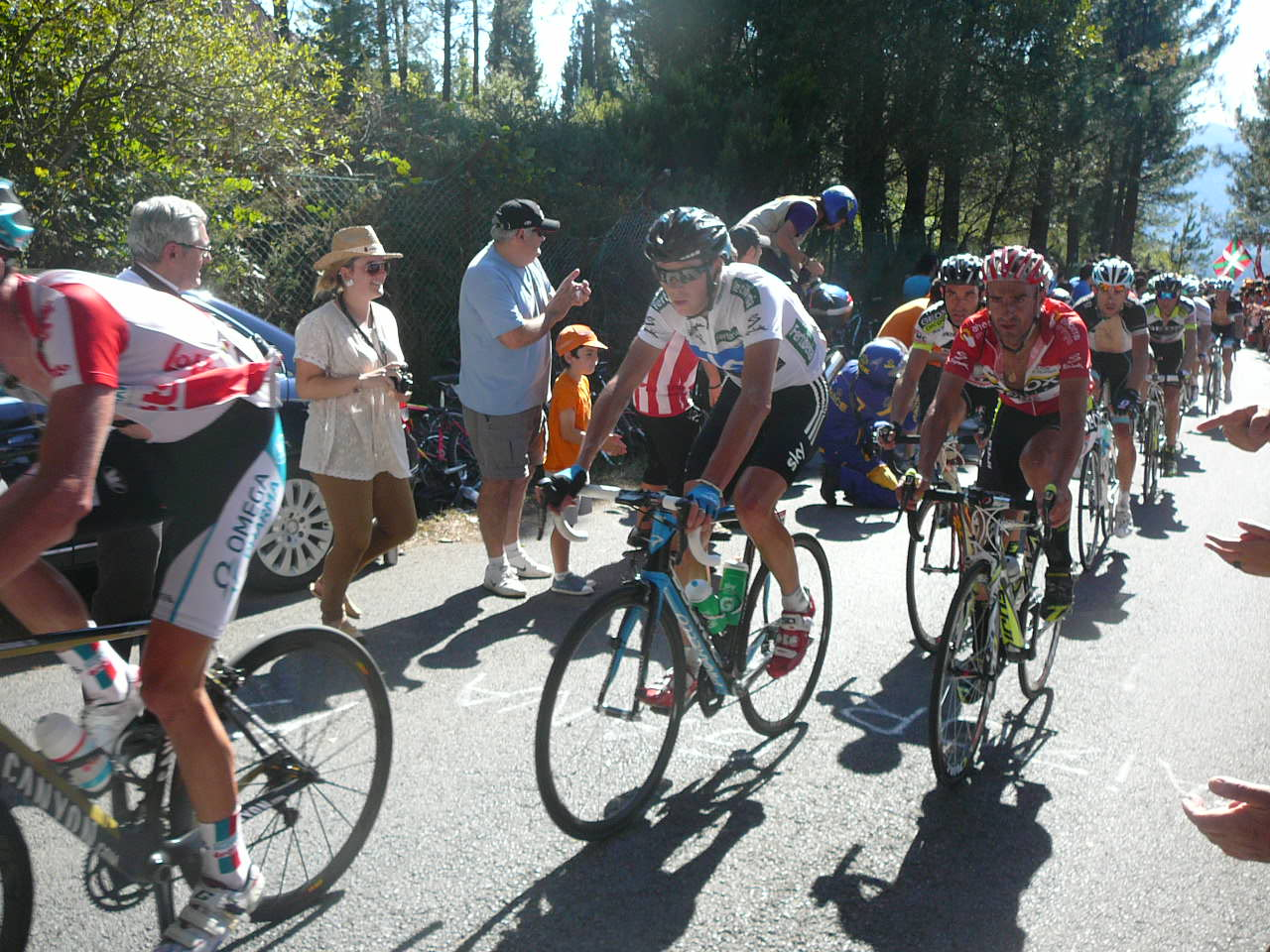 (From left to right) Jurgen Van Den Broeck, Chris Froome, David de la Fuente, Juan José Cobo, Maxime Monfort and Denis Menchov riding in stage 19 of the 2011 Vuelta a España